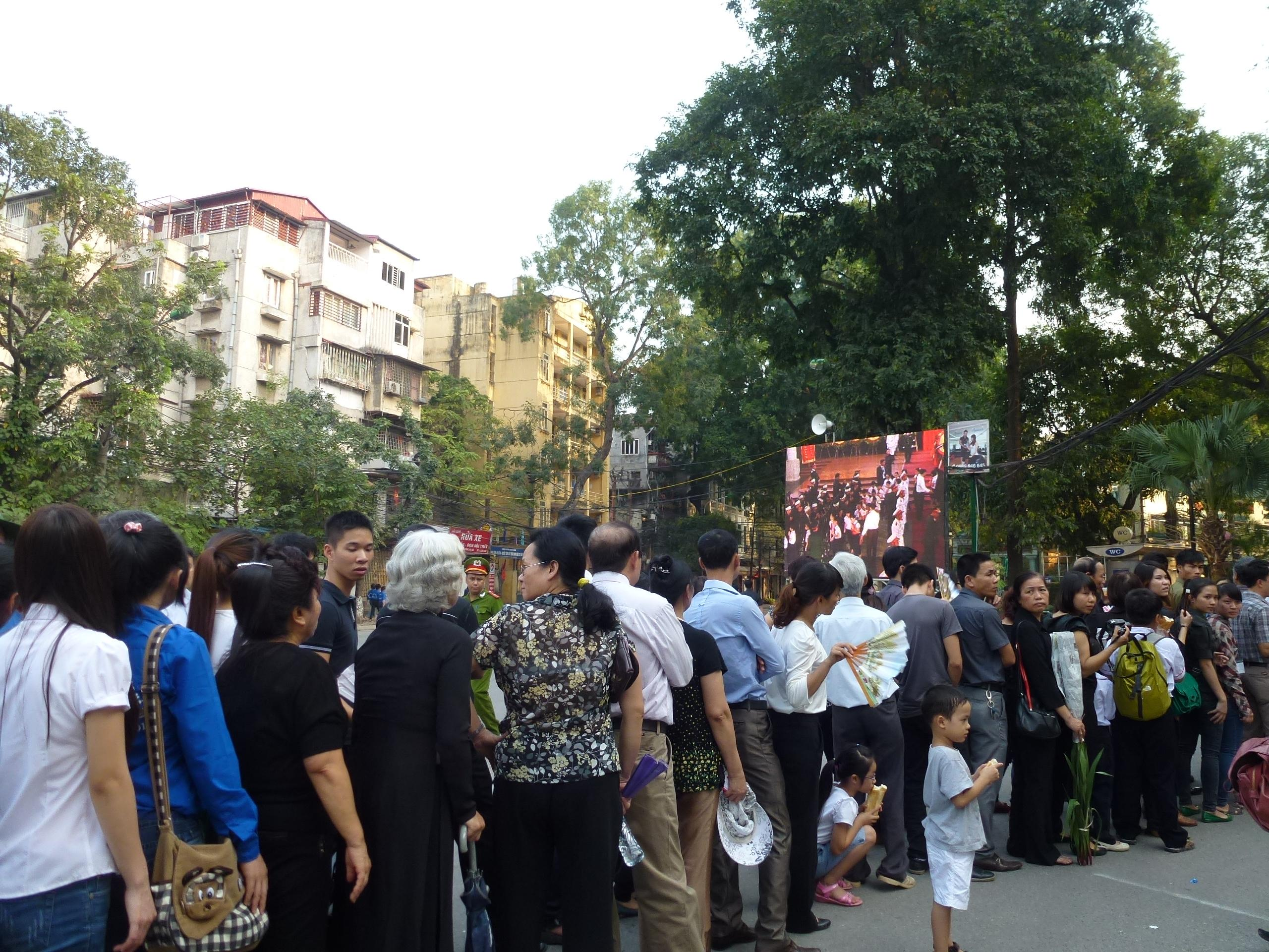 Vietnamese people are lining up to pay respects to General Vo Nguyen Giap in Hanoi